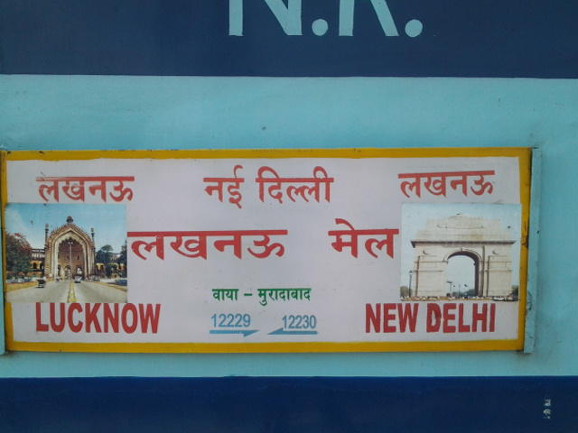 Destination board of Lucknow Mail